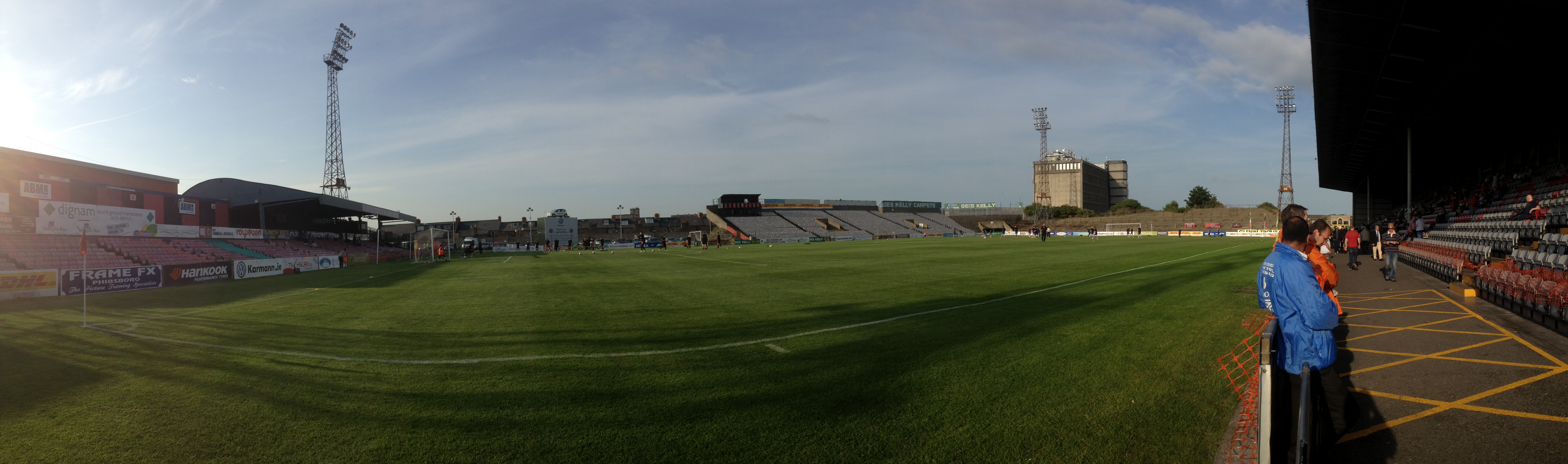 A panoramic view of Dalymount Park in Dublin. Home of Bohemian FC. The photograph was taken near the corner of the Jodi Stand and the Des Kelly stand prior to kick off for the 2013 tie between Bohemian vs. Limerick FC. In attendance that day (not pictured) was President of Ireland Michael D. Higgins. Former Republic of Ireland footballer Gary Breen as well as Peterborough United manager Darren Ferguson (son of Sir Alex). Musician Rob Smith. Limerick FC won the game one-nil.